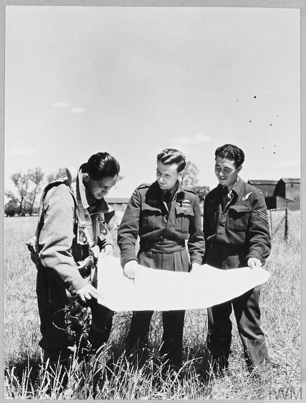 Squadron Leader Barron, DSO, DFC, DFM, of Palmerston, Otago, New Zealand, talks maps with two Maori flying personnel [left] Sergeant (air gunner) Tame Hawaikirangi Waerea of Nuhaka, Hawkes Bay, and [right] Sergeant C.M. Pinker [navigator] of Matata-Taurangu, a 21 year old farmer.